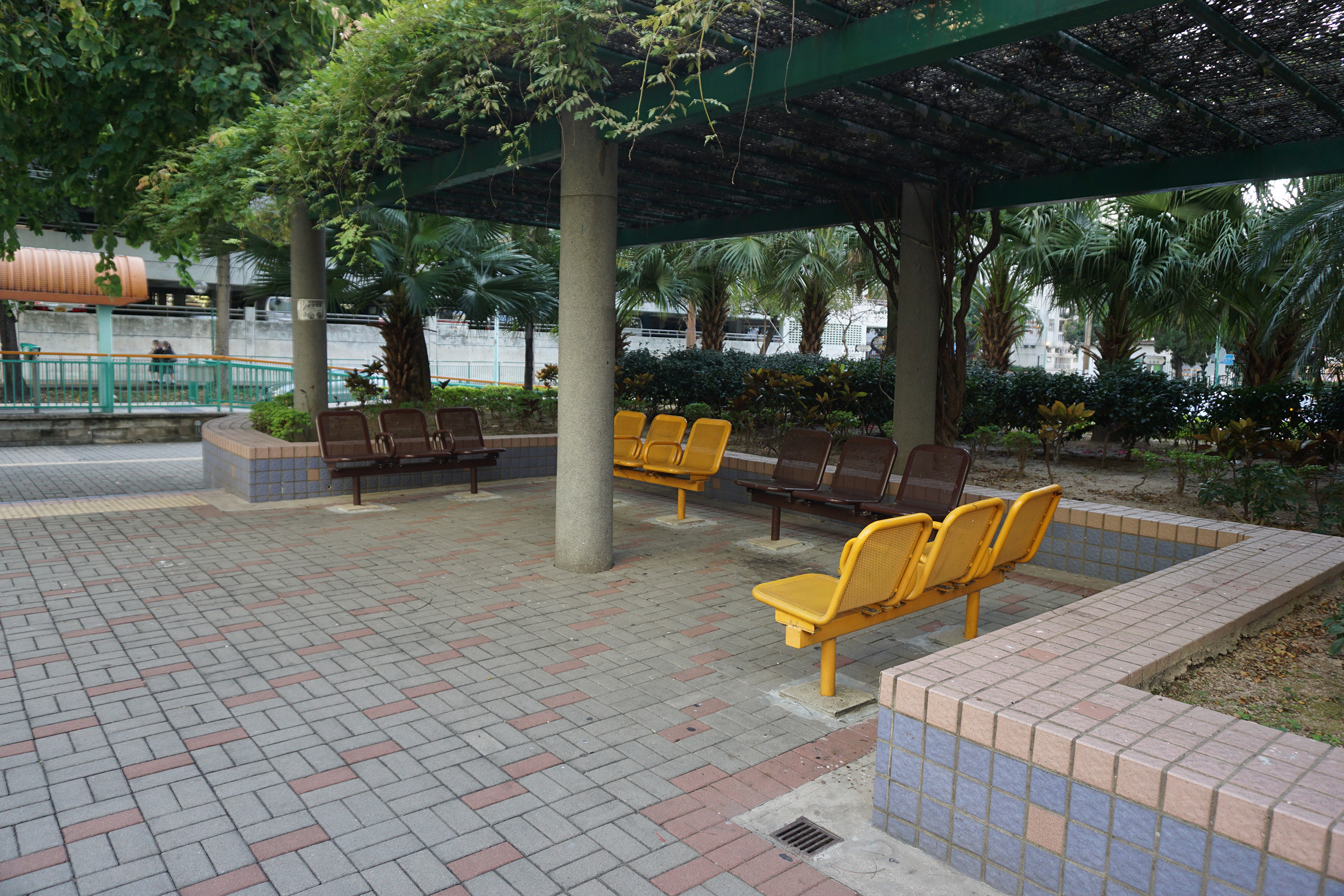 Yau Oi Estate in Tuen Mun, Hong Kong.